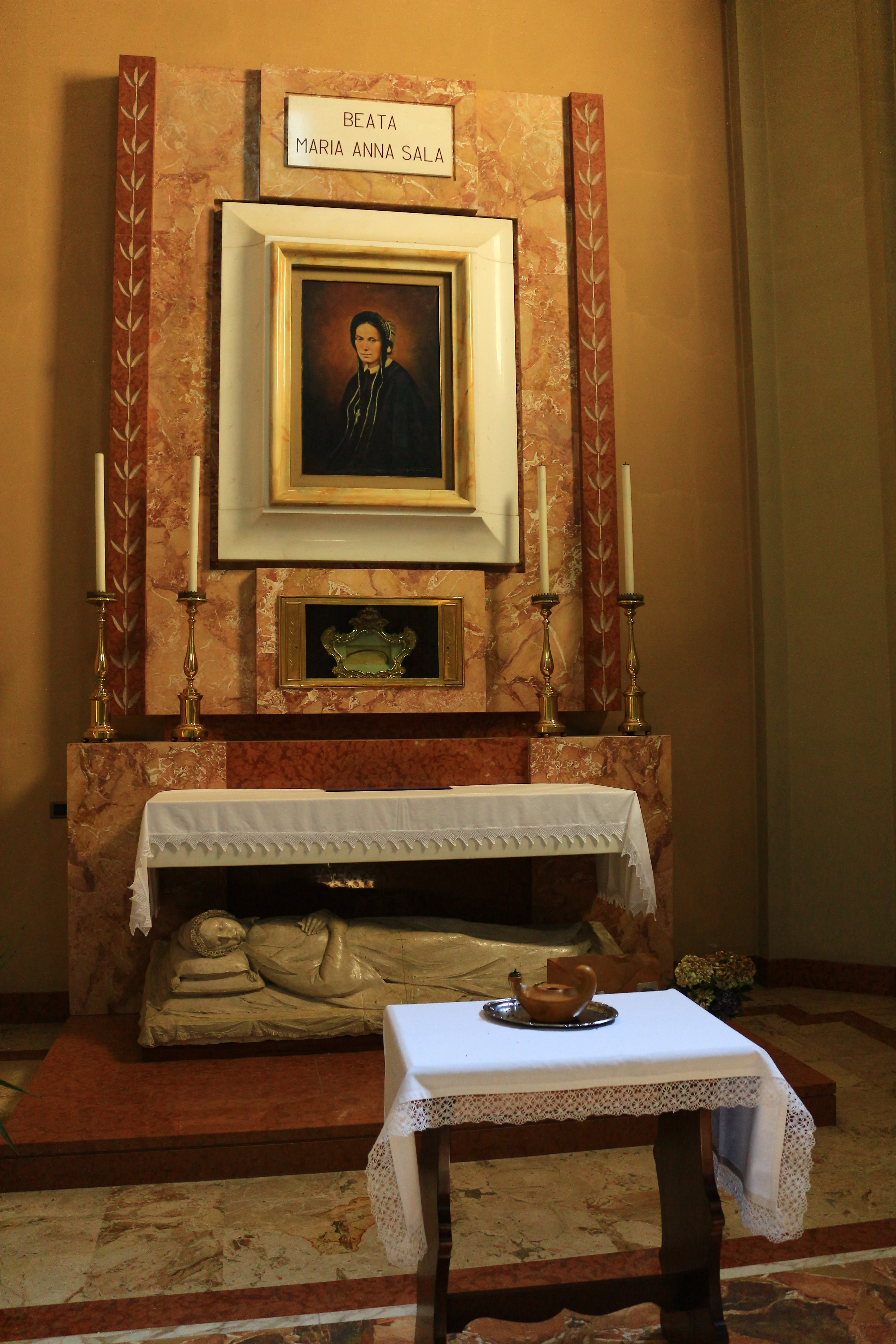 Chapel for Maria Anna Sala Chiesa Parrocchiale di Brivio Church of Brivio (Italy) August 2018